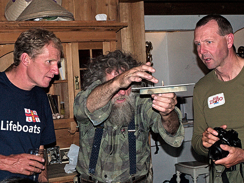 Tróndur Patursson, Faeroese artist, sowing his experiments of the Brendan expedition.